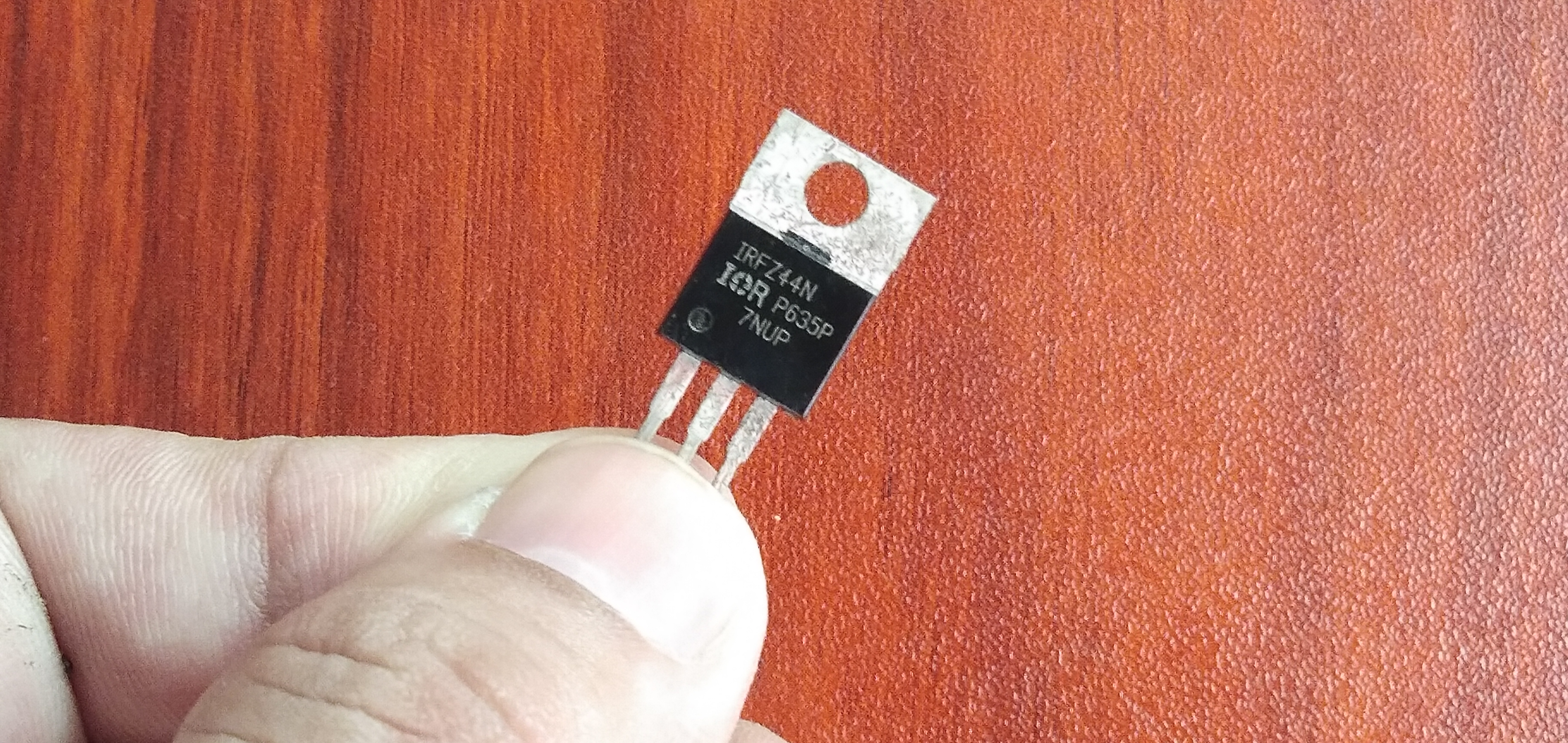 မြန်မာဘာသာ: Mosfet = Metal Oxided Semi-Conductor Field Effect Transistor